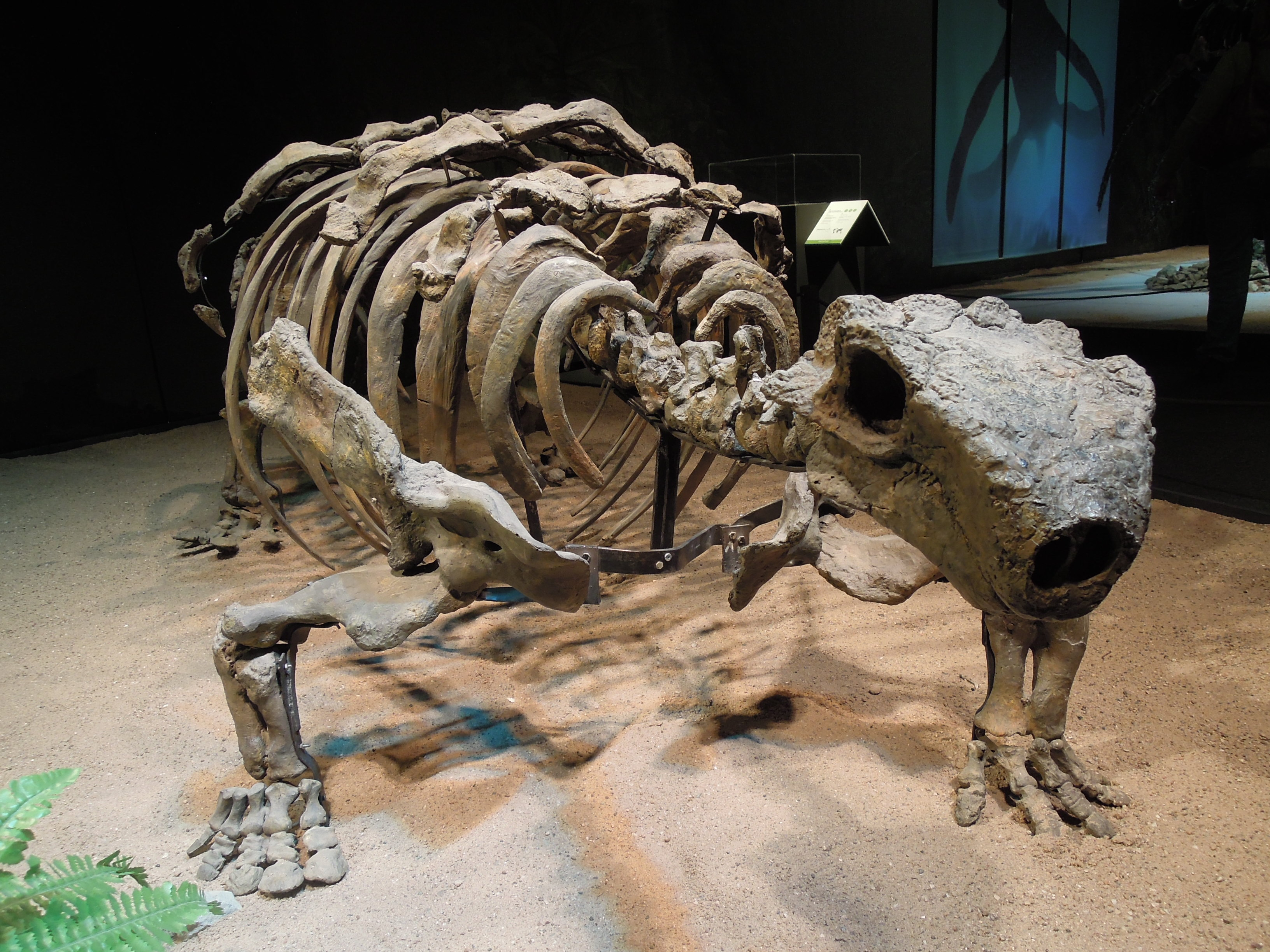 Talarurus plicatospineus, Dinosaurium exhibition, Prague, Czech Republic